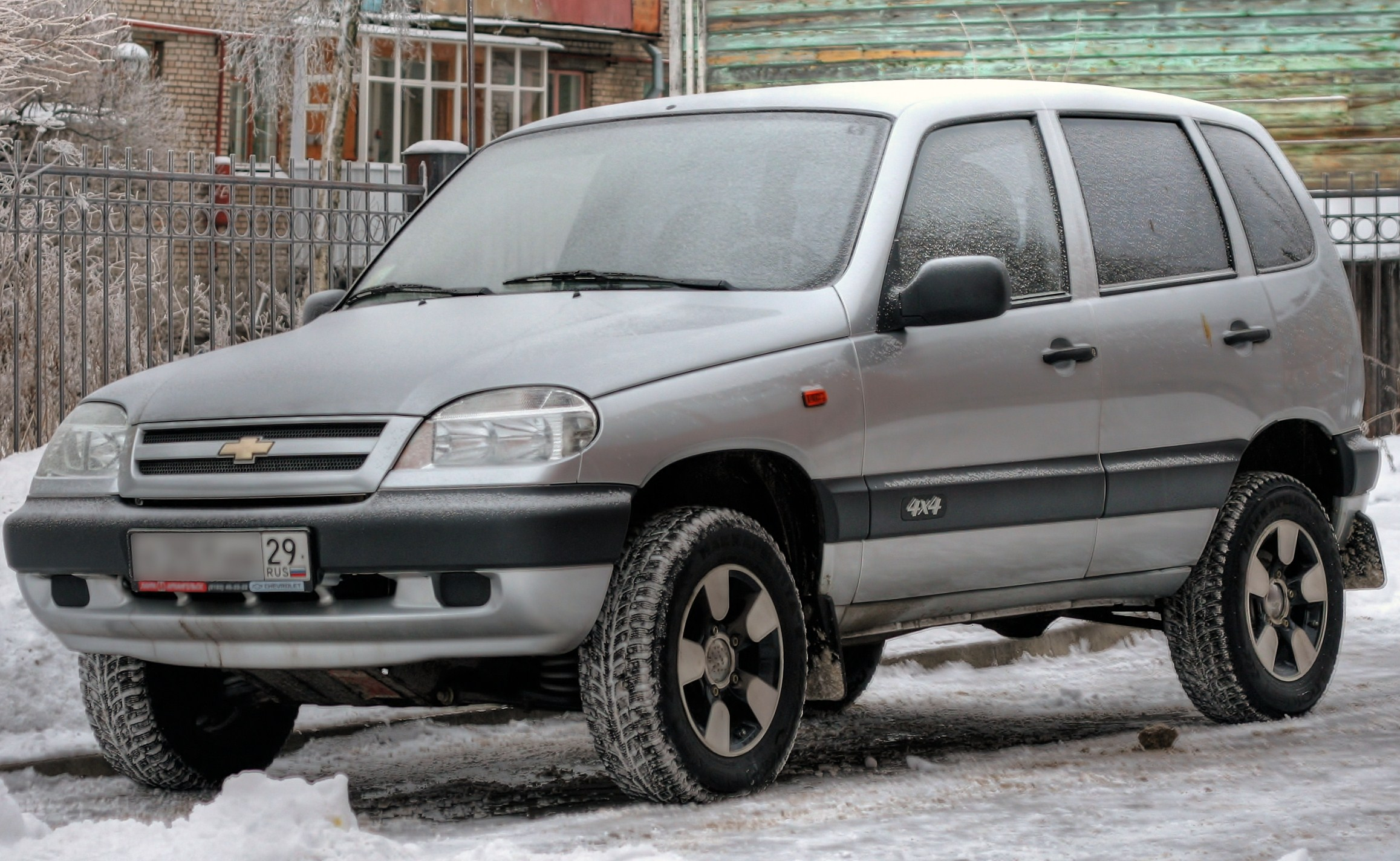 Chevrolet Niva in Arkhangelsk, Russia